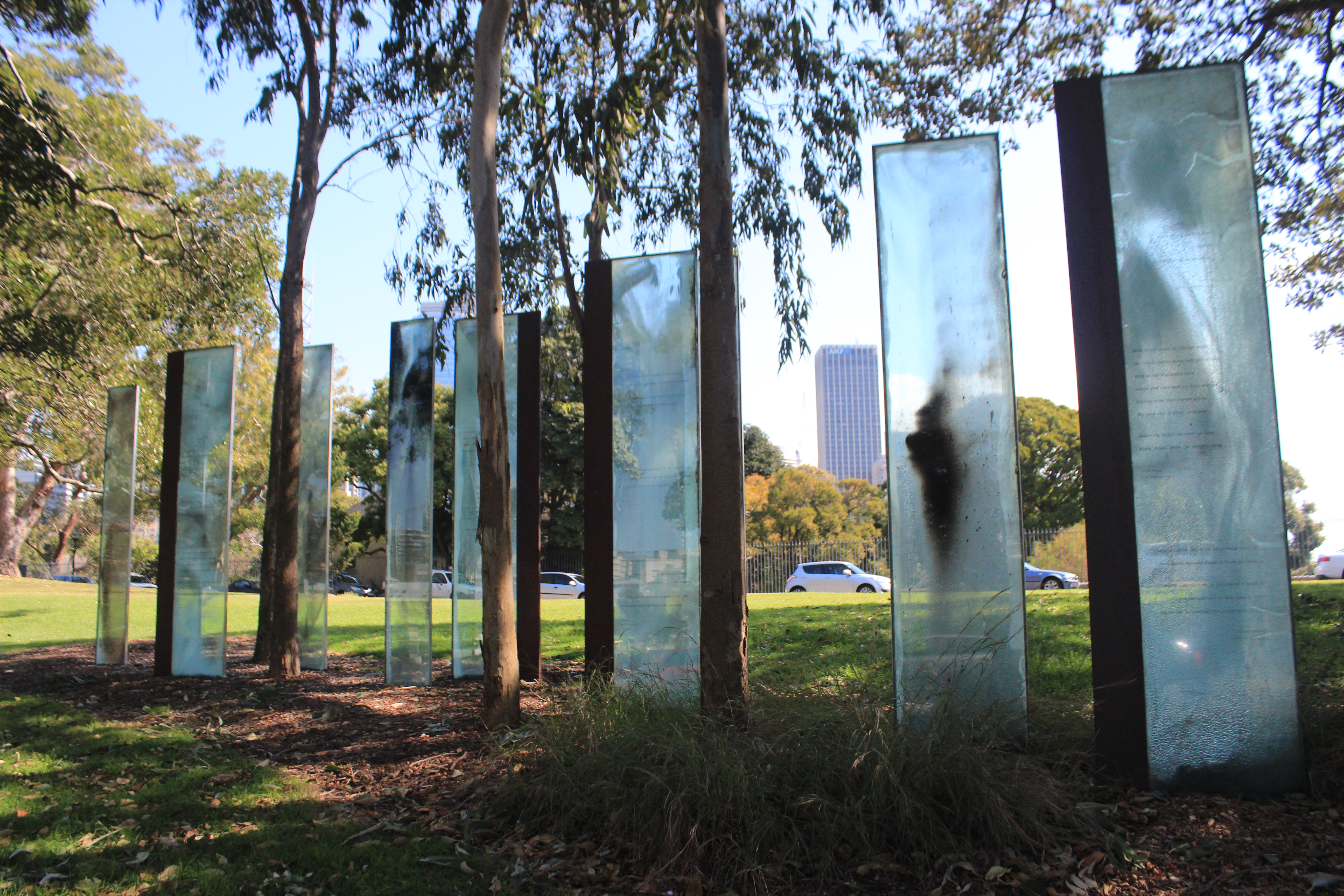 Glass panels on grassy ridge